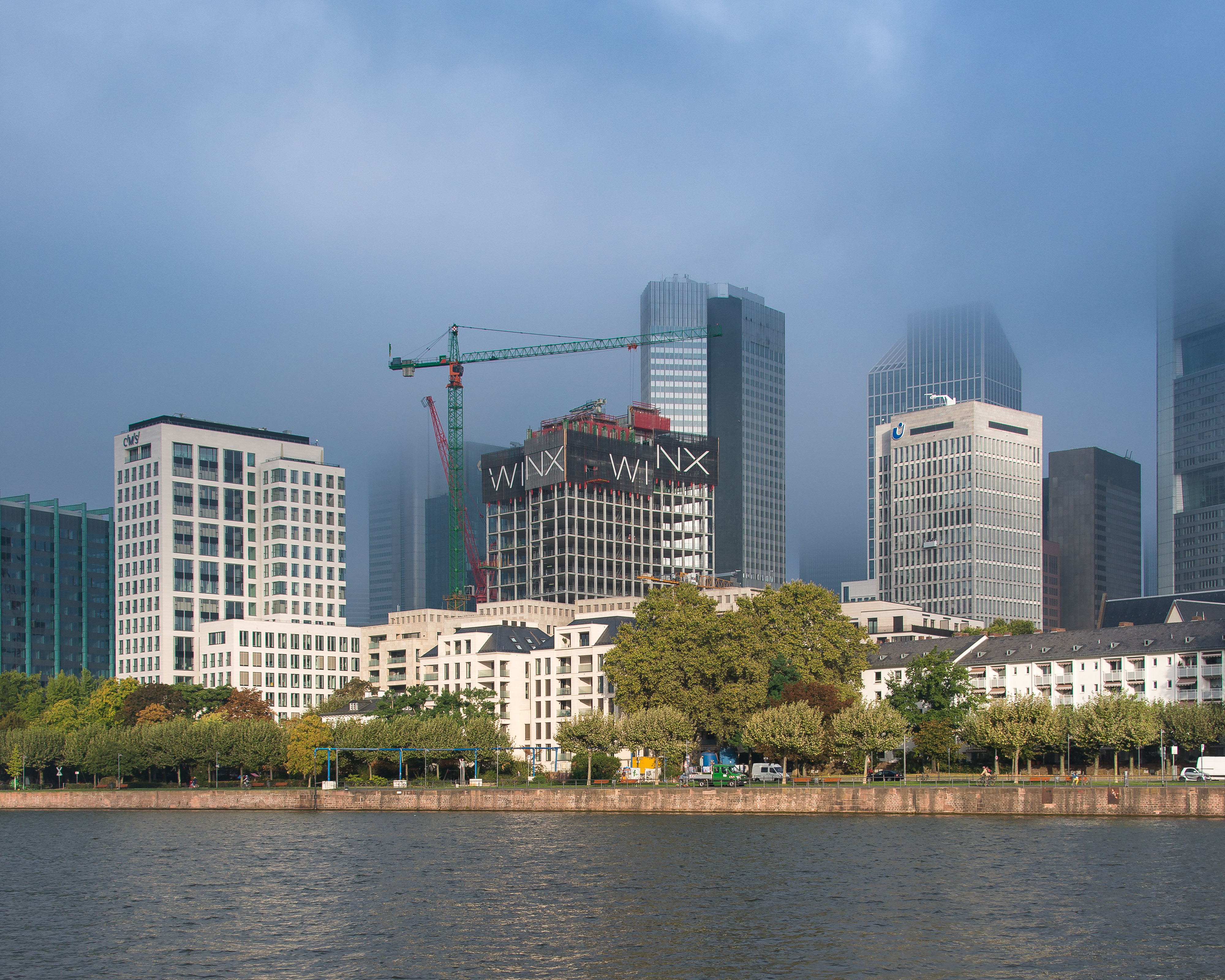 Frankfurt am Main, MainTor redevelopment site, as seen from South-East (September 2016).